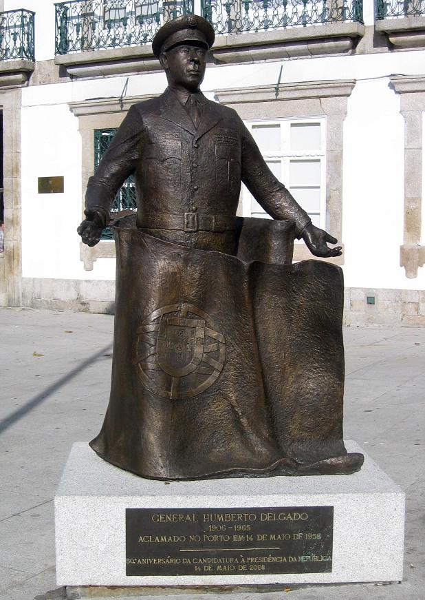 Statue of Humberto Delgado - Sculptor José Rodrigues - Oporto - Portugal